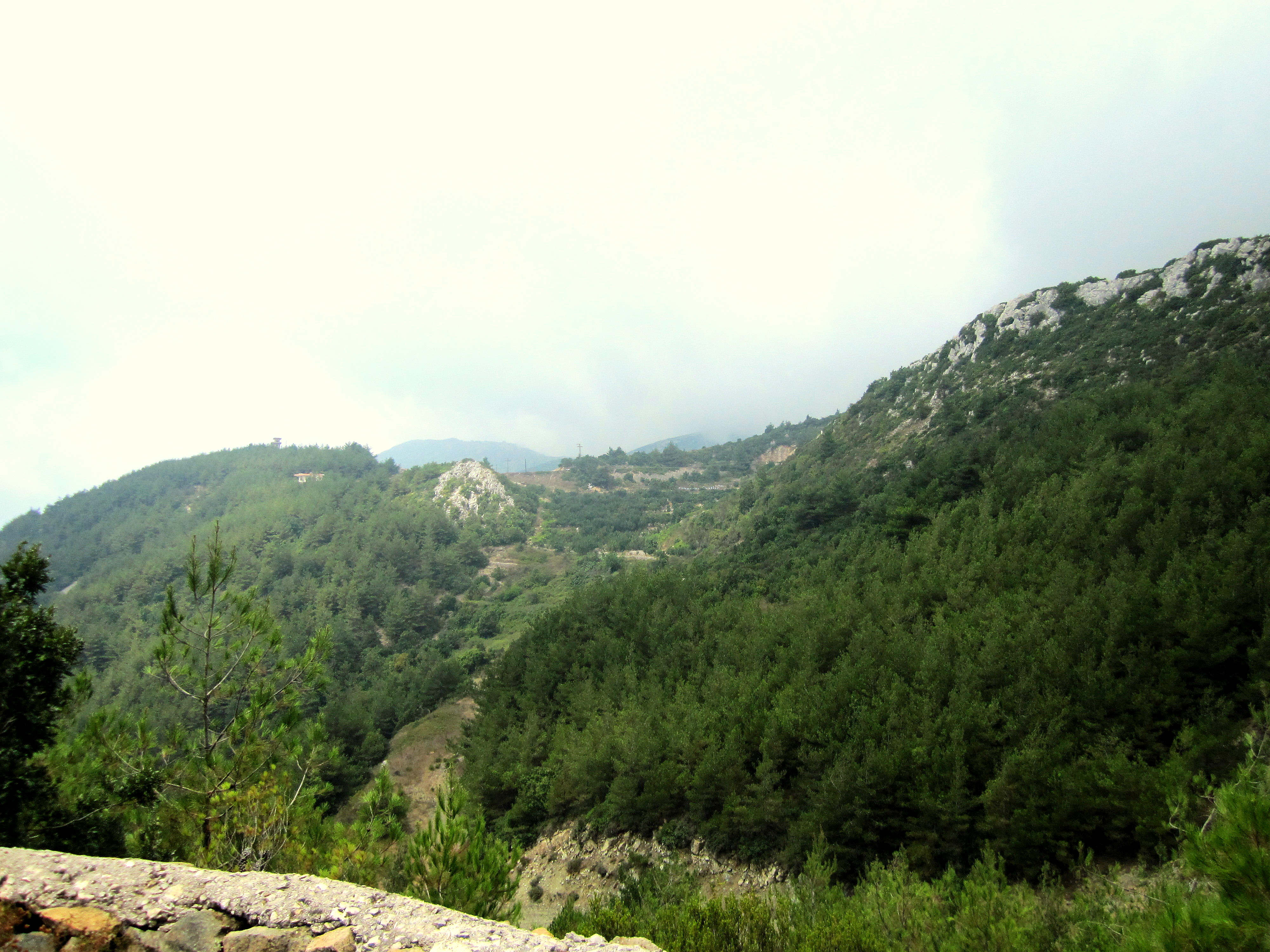 Parts of Mount al-Nisr, overlooking Ekizolukh (Nab'ain) village, south of Kessab, Latakia Governorate, Syria